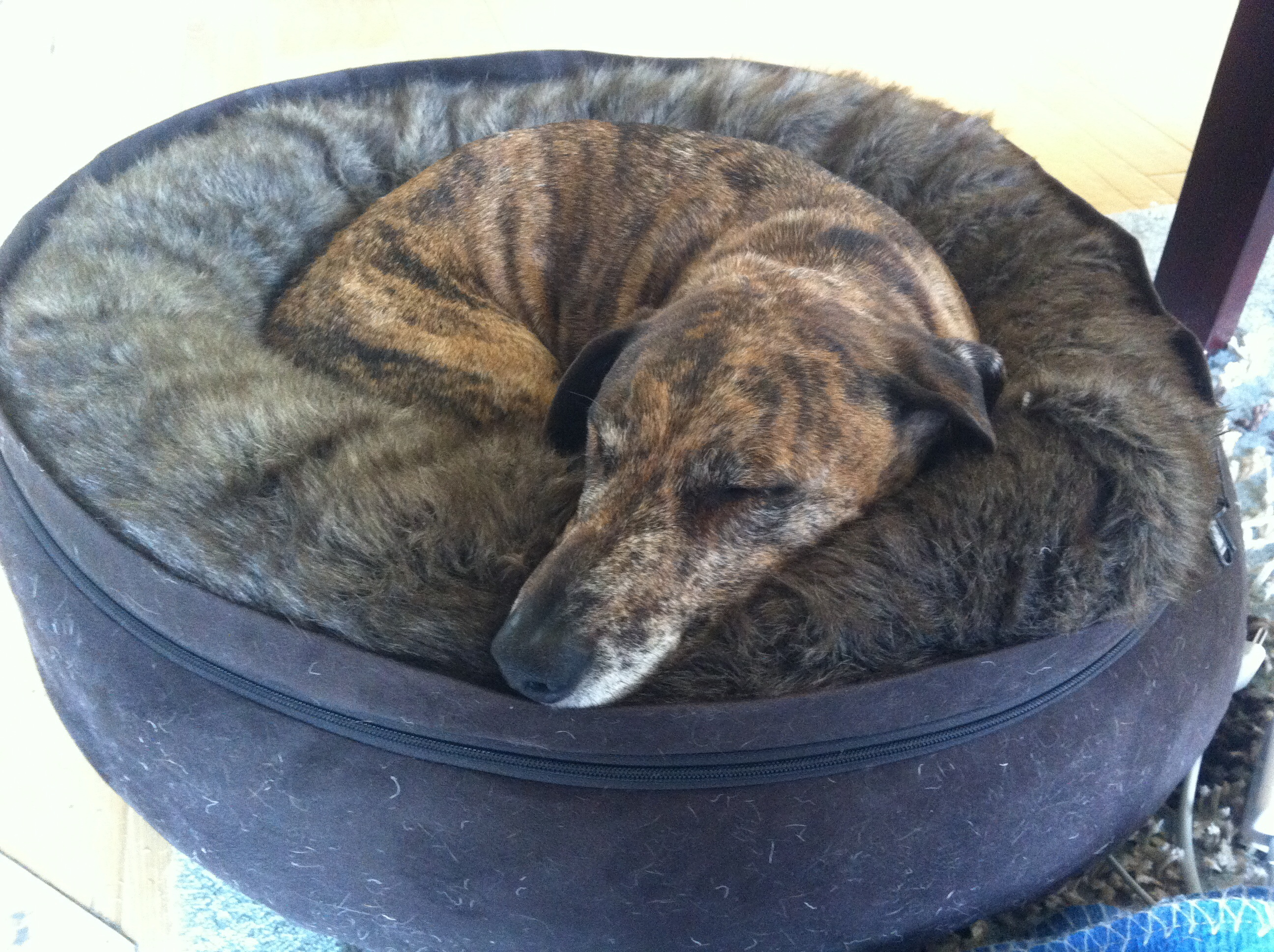 This dog is "comfy".